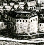 Goldsmith's bastion, Braşov, Romania